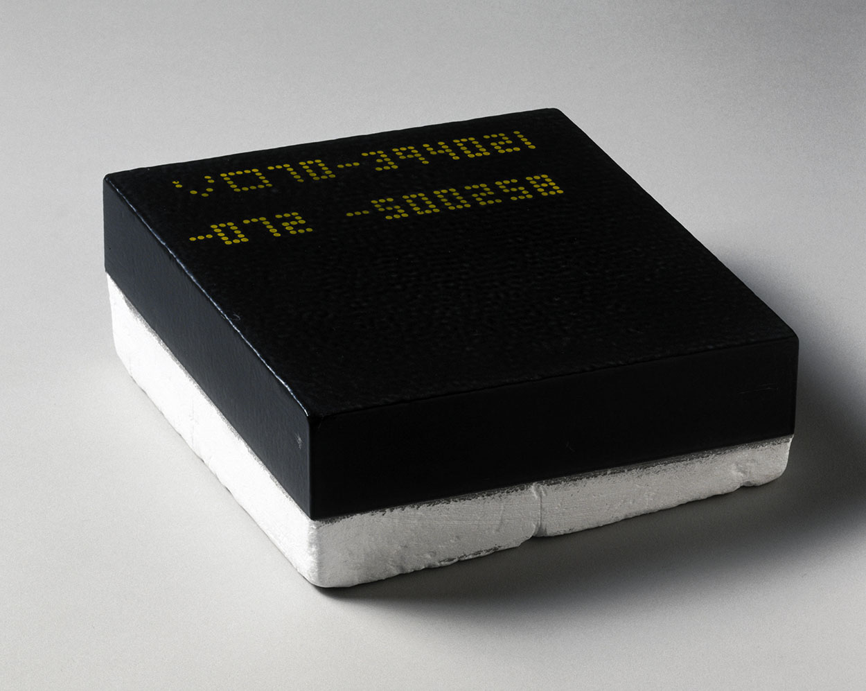 Quilite Advanced Flexible Reusable Surface Insulation (AFRSI). These tiles are used to insulate the Space Shuttle from the high temperatures generated by the orbiter’s friction with the Earth’s atmosphere on re-entry. The black tiles on the lower portion of the Shuttle have to be able to withstand temperatures of more than 2300 degrees Fahrenheit (F), but these particular tiles are used to protect areas where the temperatures experienced are less than 1200 degrees F. Silica is used because of its durability and resistance to extremely high temperatures. The Space Shuttle, the world's first partially reusable launch vehicle, first flew on 12th April 1981 and has been used for all America's manned space missions ever since. Made by Rockwell.